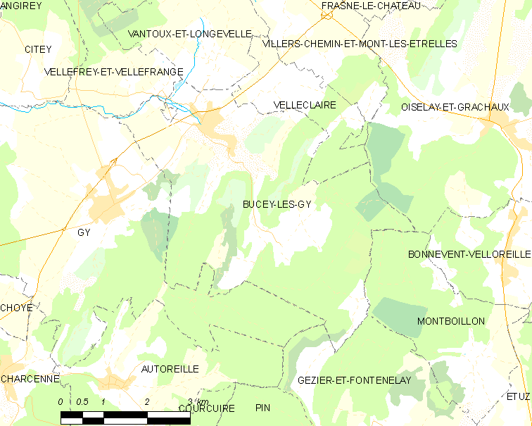 Map of French municipality